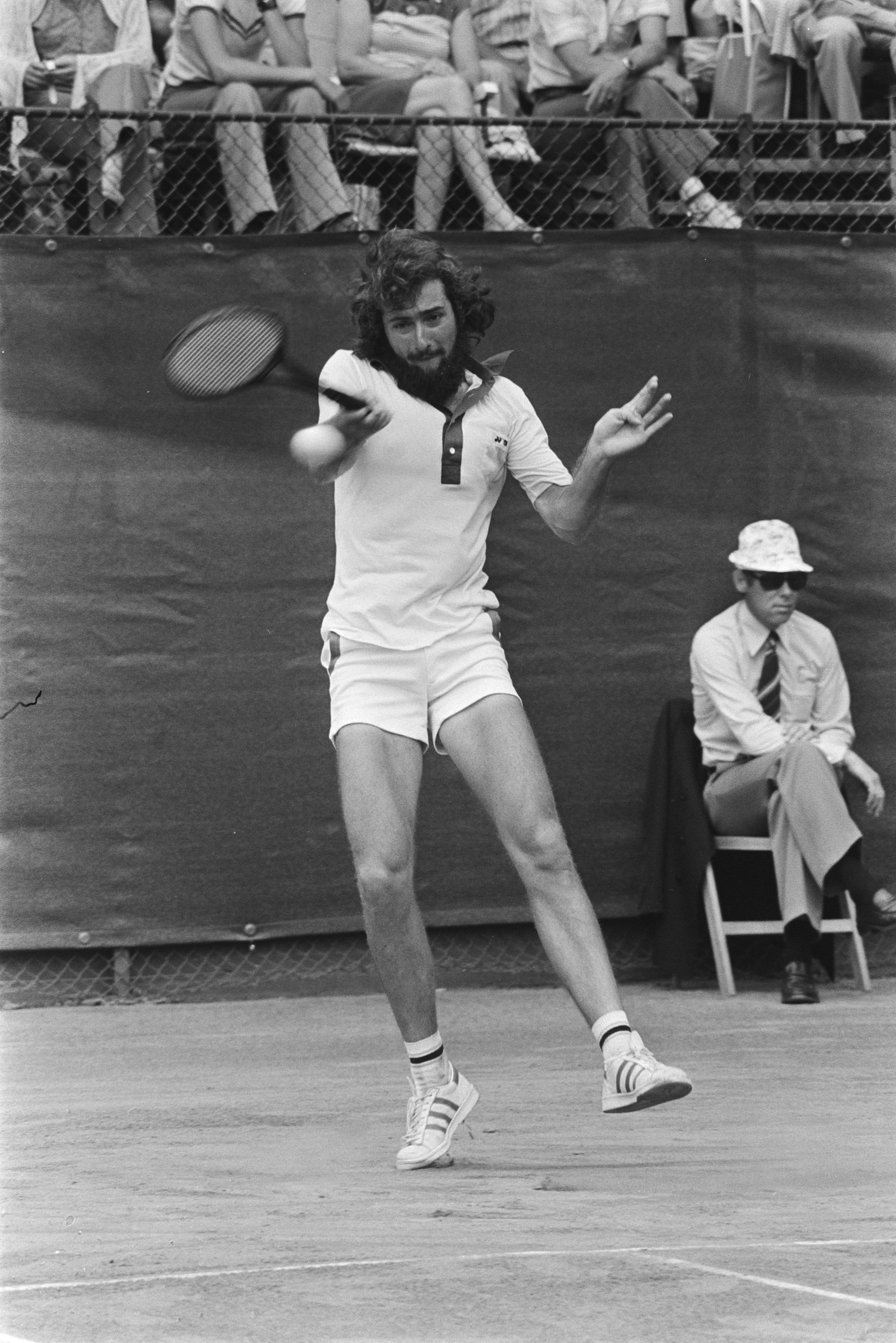 Australian tennis player David Carter playing Italian Corrado Barazzutti in the third round of the 1978 Dutch Open tournament in Hilversum